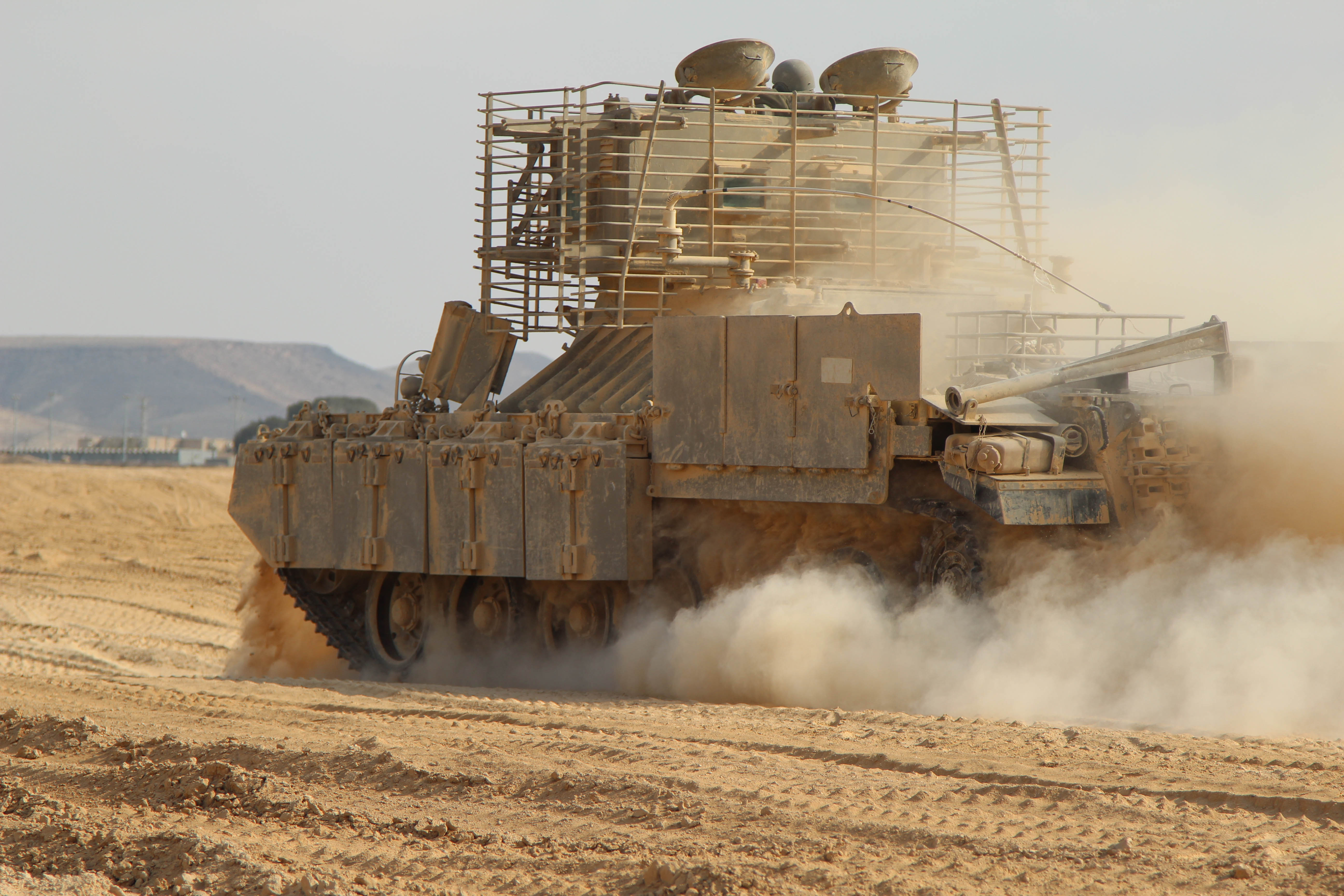 January 1, 2013 Female tank instructors of the School of Infantry Professions conducted a drill with their Nagmachon tanks and armed hummers on Tuesday. These instructors are always training together since they are responsible for teaching all infantry soldiers in different professions, whether it be operating tanks and/or mastering firearms. Photo by Cpl. Zev Marmorstein, IDF Spokesperson Unit The Israel Defense Forces Facebook • blog • Twitter